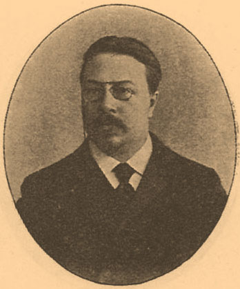 Illustration from Brockhaus and Efron Encyclopedic Dictionary (1890—1907)